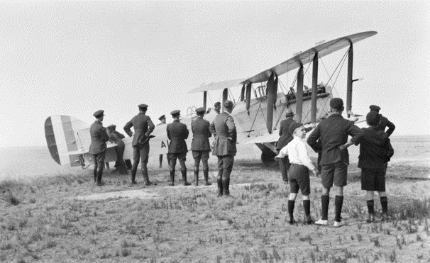 Point Cook, Vic. 1926. Starboard side on view of a De Havilland (Airco) DH.9a aircraft (No. A1). Note the spectators including the young boys in the foreground. This aircraft was one of 128 gift aircraft presented by the British government to the newly formed RAAF which included thirty DH.9a aircraft. (Original negative housed in AWM Nitrate Store).